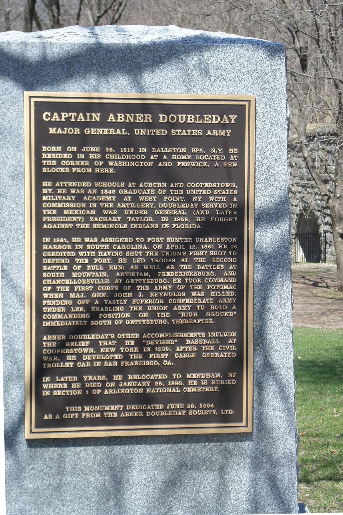 Iron Spring Park, Ballston Spa NY